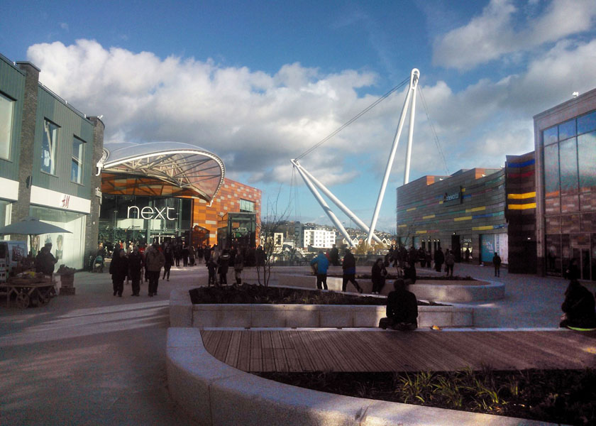 The redeveloped and redesigned John Frost Square in Newport, South Wales, opened to the public with Friars Walk Shopping Centre in late 2015